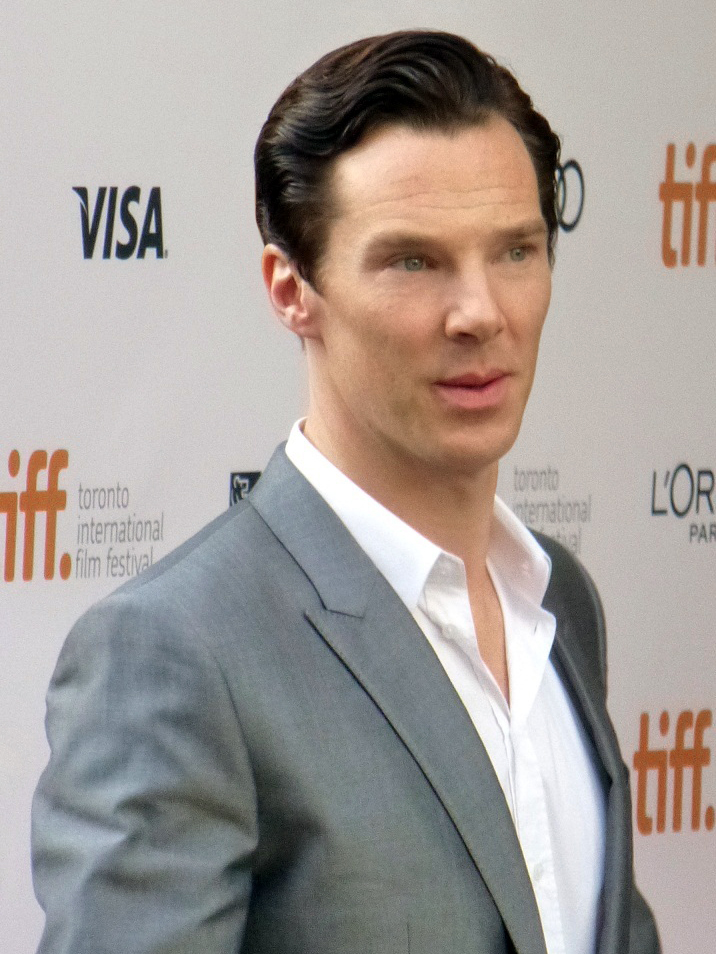 Benedict Cumberbatch at the premiere of 12 Years a Slave, 2013 Toronto Film Festival